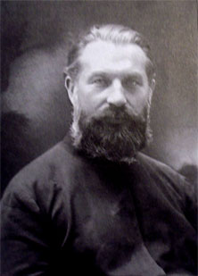 Father Vendelin Javorka, Greek Catholic Priest, Jesuit